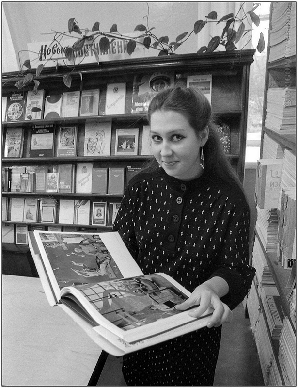 A staff in the university library.